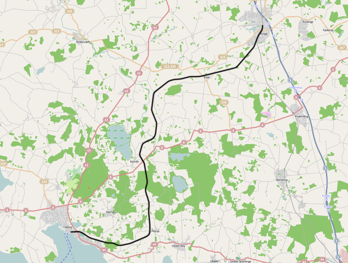 Railway line Ringe - Faaborg